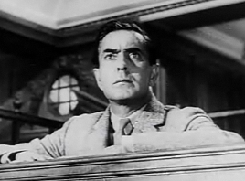 Cropped screenshot of Tyrone Power from the trailer for the film Witness for the Prosecution.